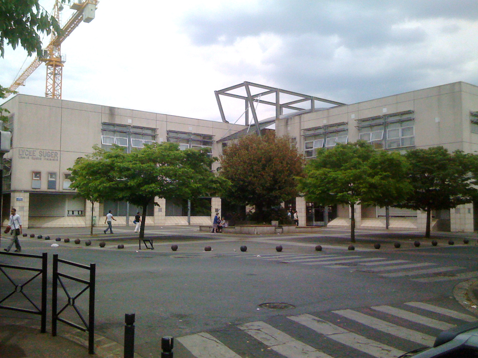 Lycée Suger, sixth-form college/senior high school in northern suburb of Paris Français